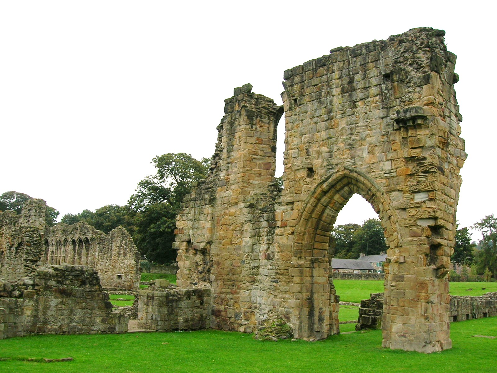 Basingwerk Abbey